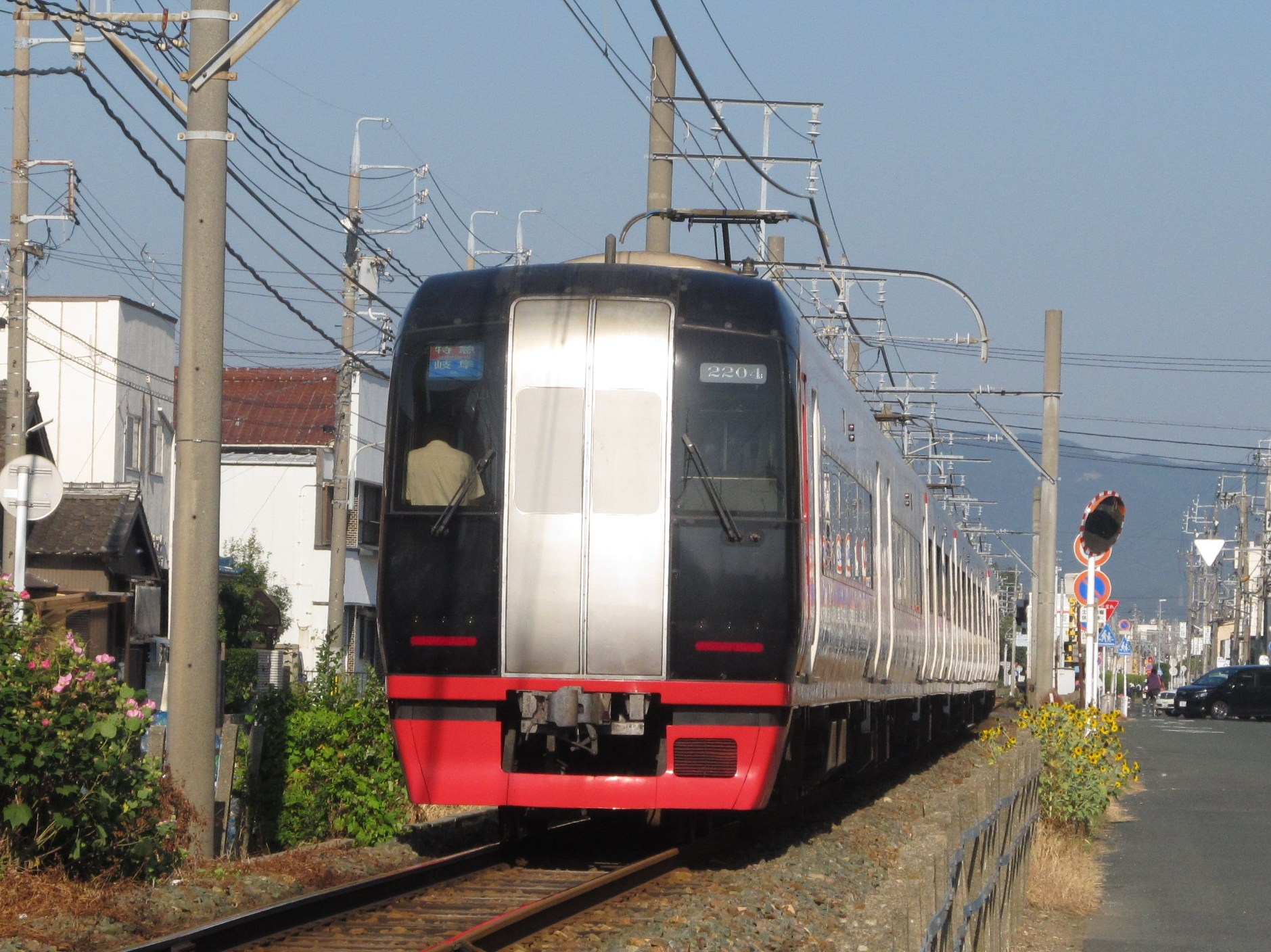 Meitetsu 2200 series. Limited Express bound for Meitetsu Gifu. In Toyokawa Line.